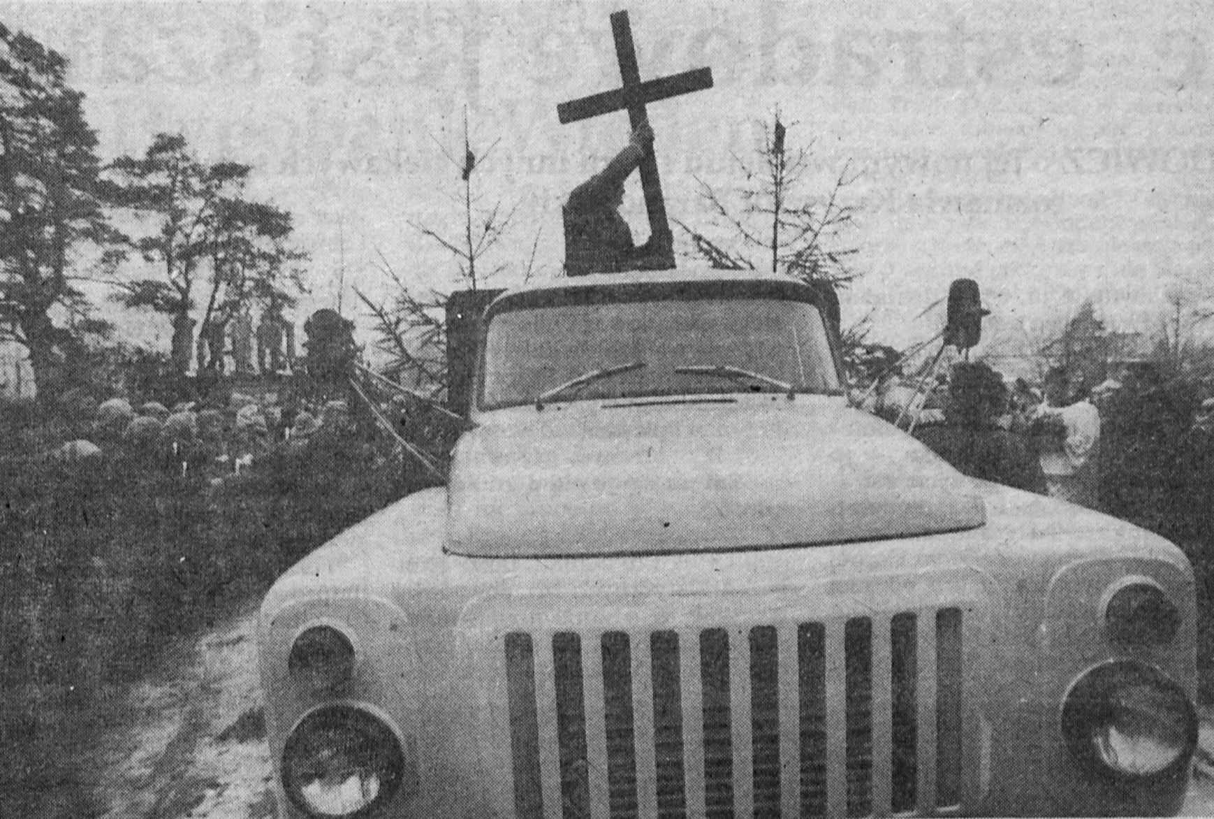 Roberts Mūrnieks' funeral in Riga, January 19th, 1991